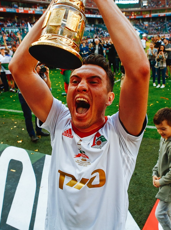 Boris Rotenberg celebrating FC Lokomotiv winning the 2017-18 Russian Premier League.